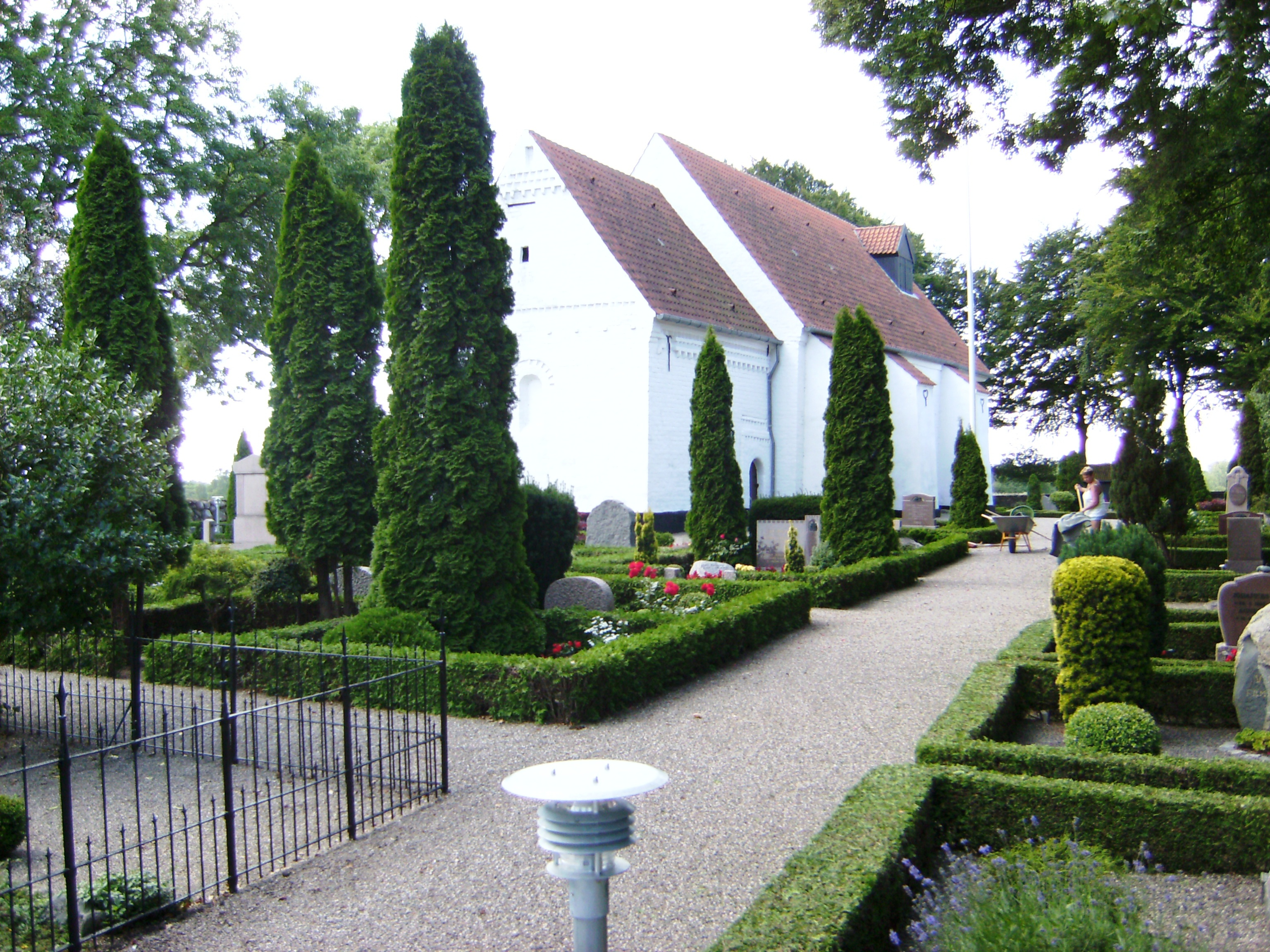 Church of Musse, Denmark